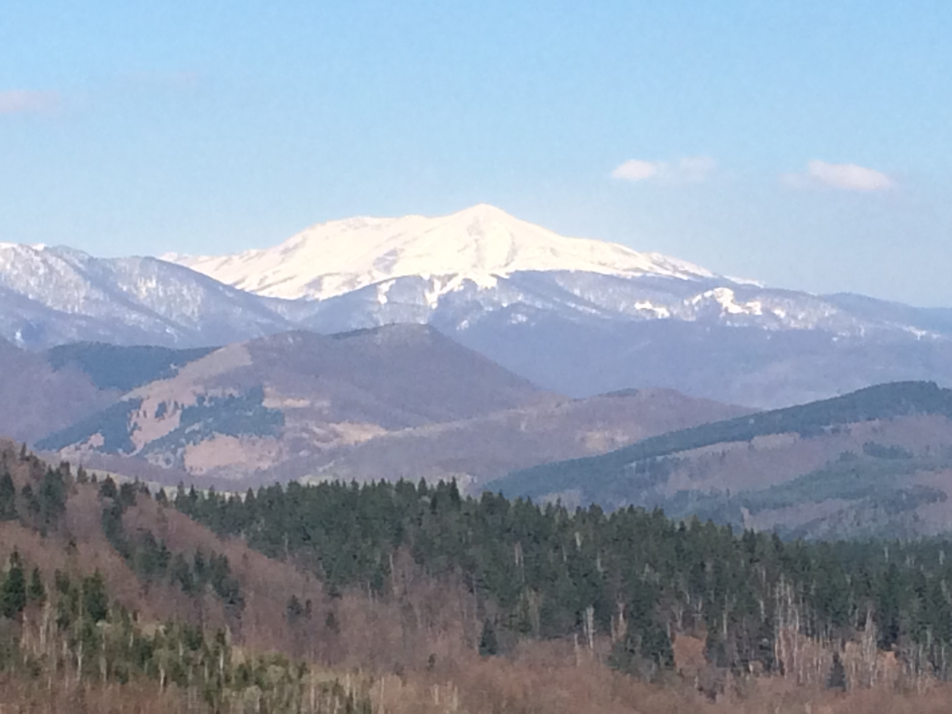 The mountain of Bjelasnica in Bosnia-Herceovina, seen from afar in Trnovo